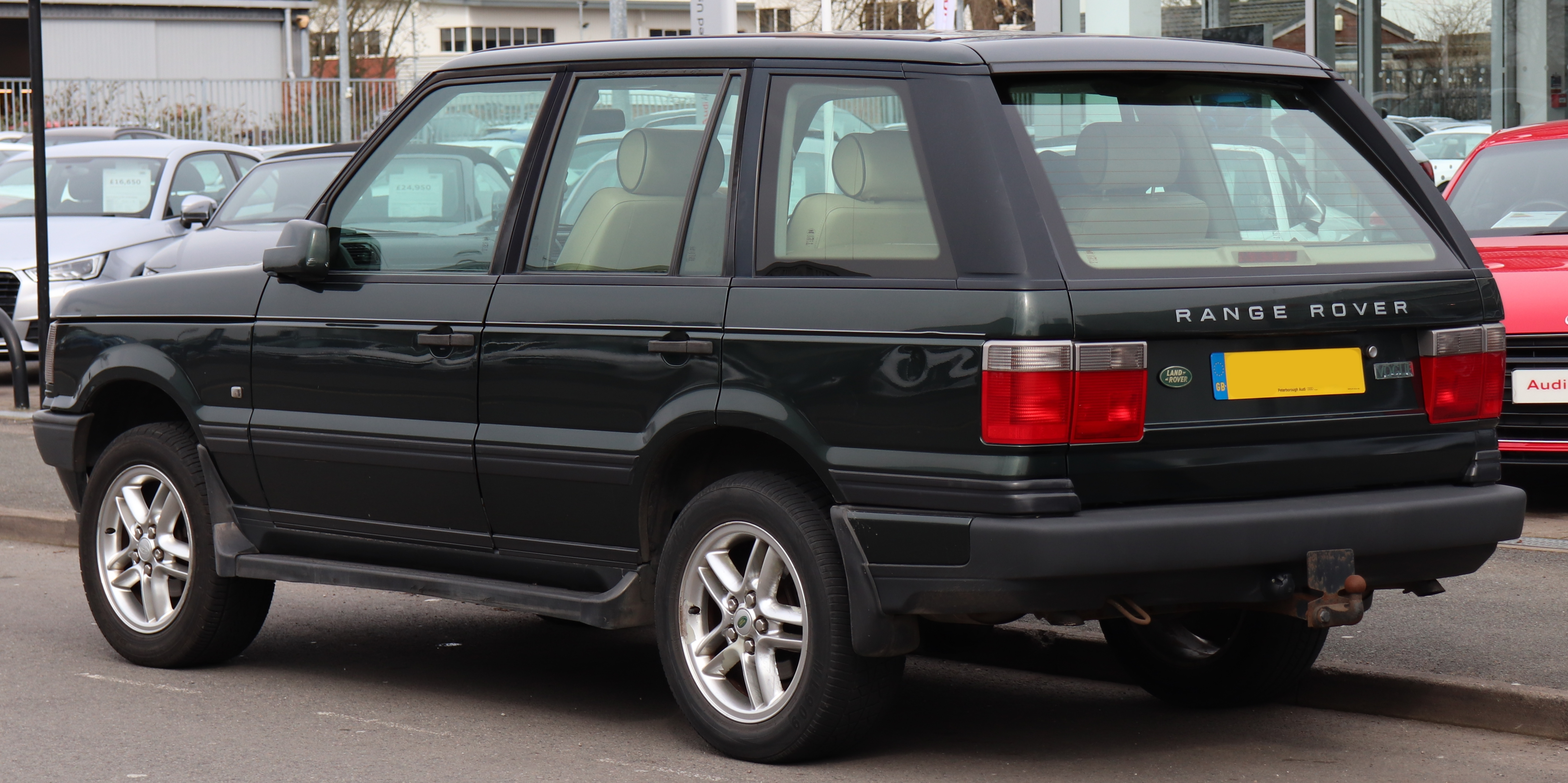 2000 Land Rover Range Rover Vogue Automatic 4.6 Rear Taken in Stratford-upon-Avon